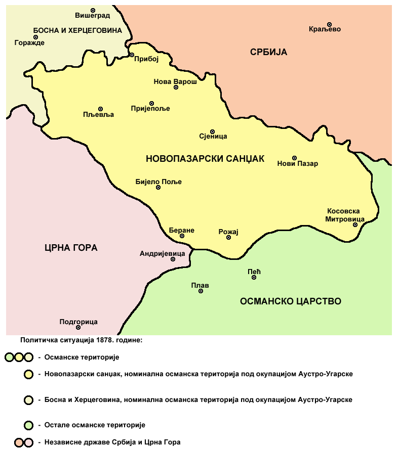 Map of the Sanjak of Novibazar, nominal territory of the Ottoman Empire under Austro-Hungarian occupation in 1878.